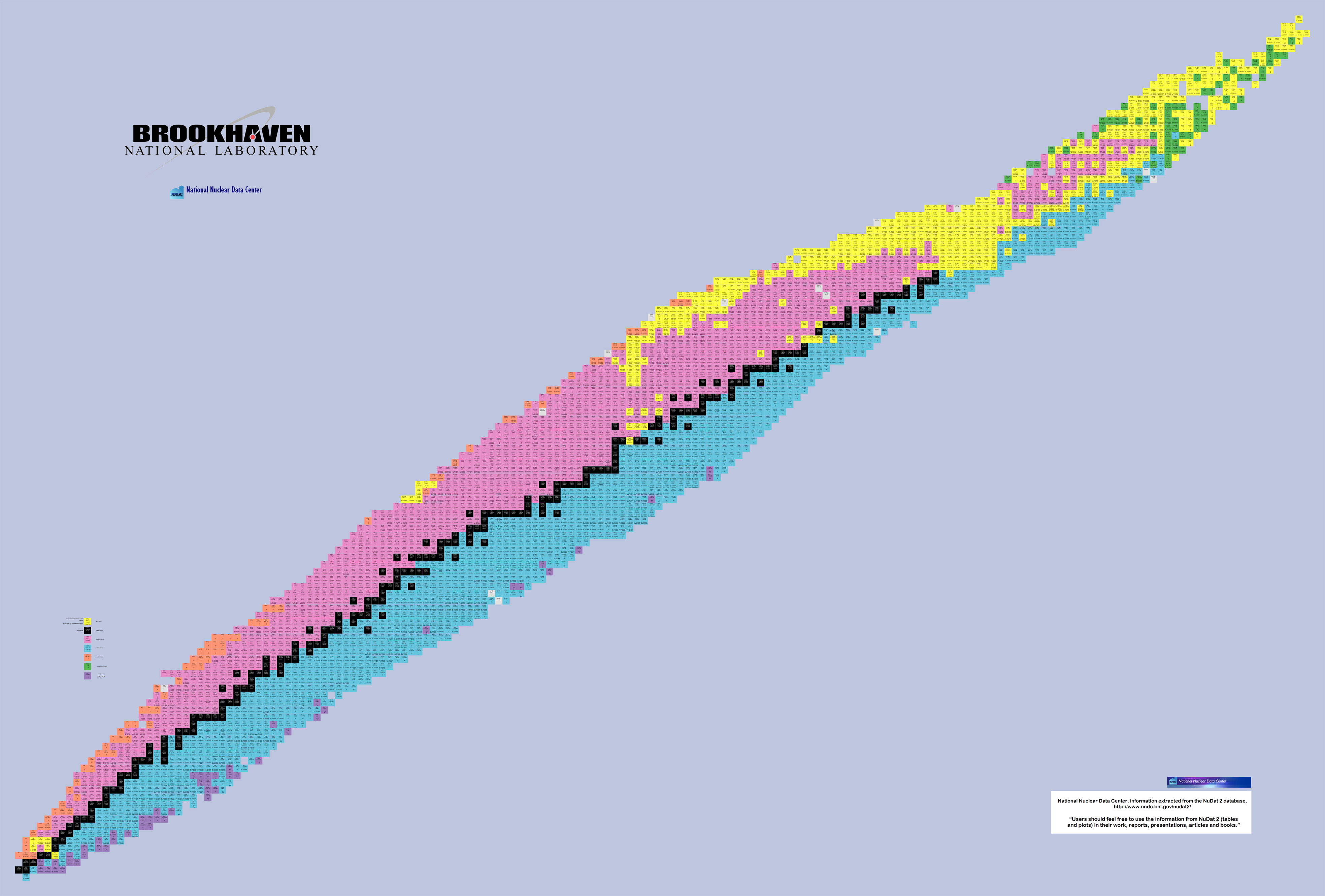 Map of nuclides, chart of nuclides alpha decay stable nuclide beta+/EC decay beta- decay proton decay spontaneous fission neutron emission